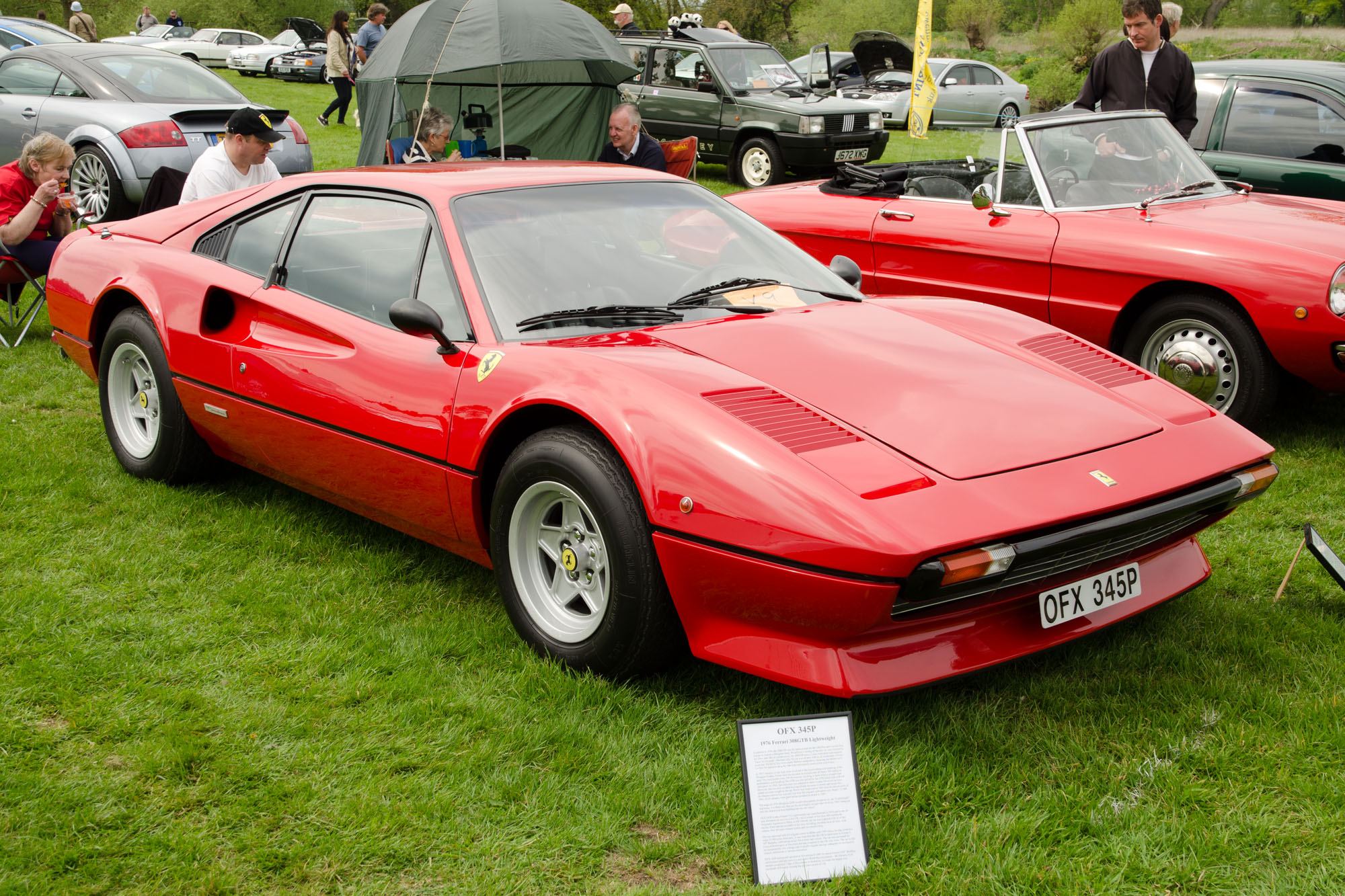 Catton Hall Classic Car Show 04/05/2014